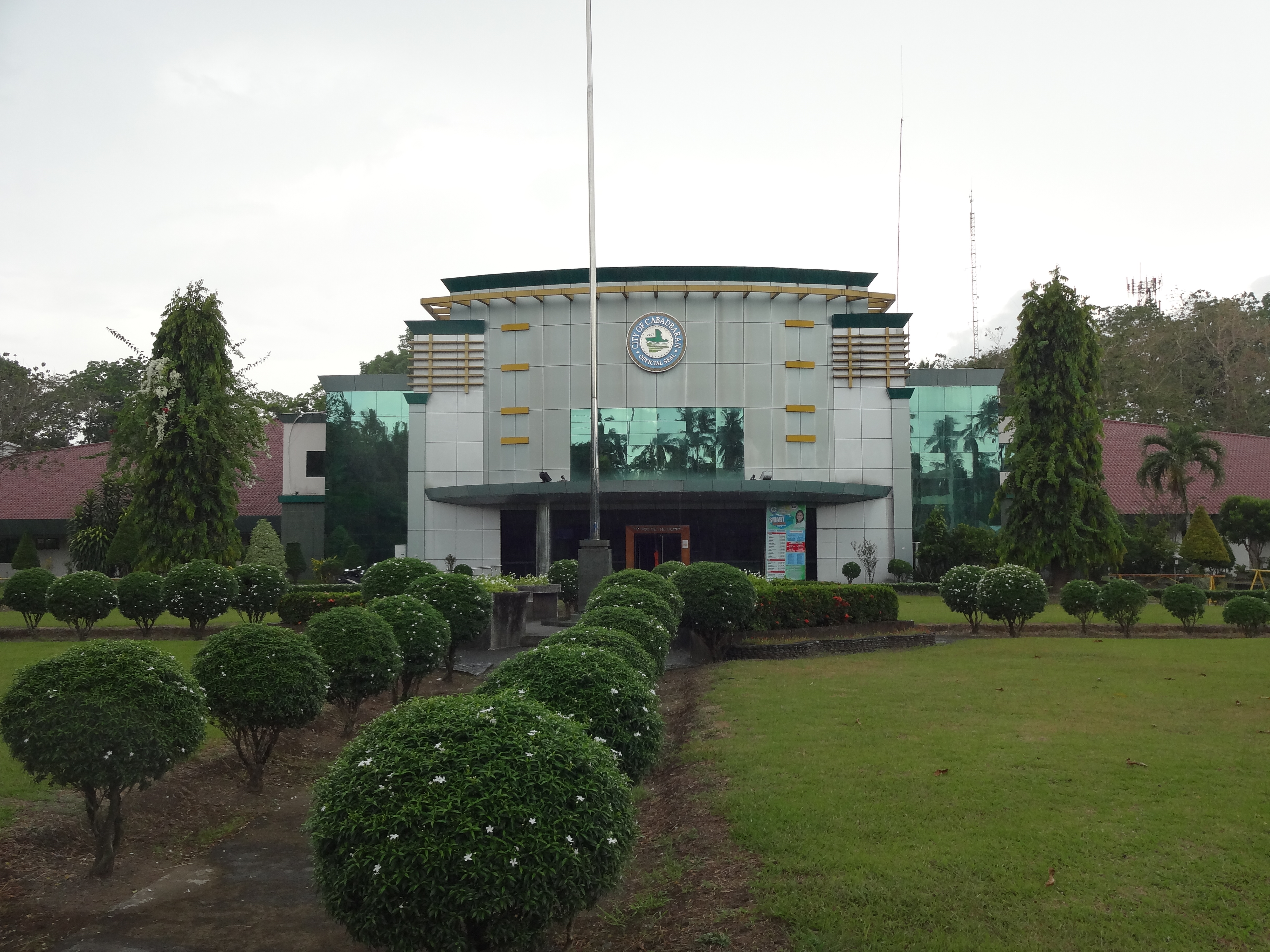 This is my own work. The Cabadbaran City Hall, Cabadbaran City, Agusan del Norte.